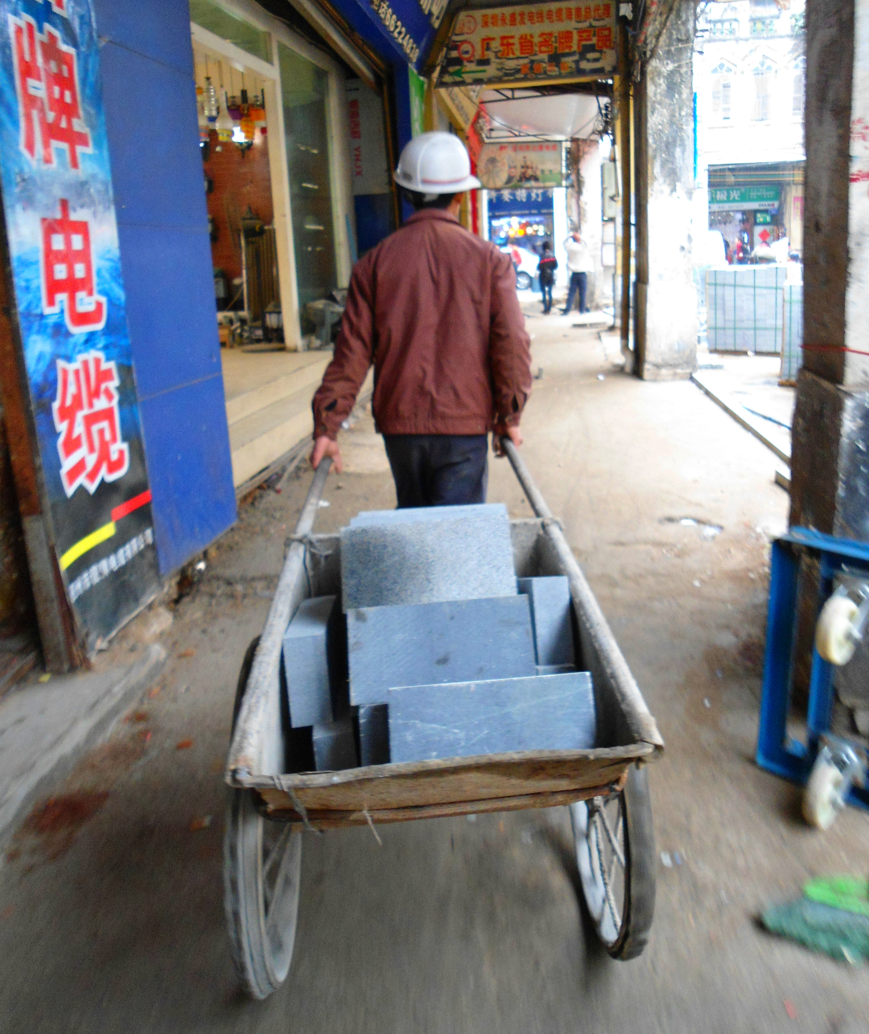 Metal wheelbarrow in Haikou City, Hainan Province, China.